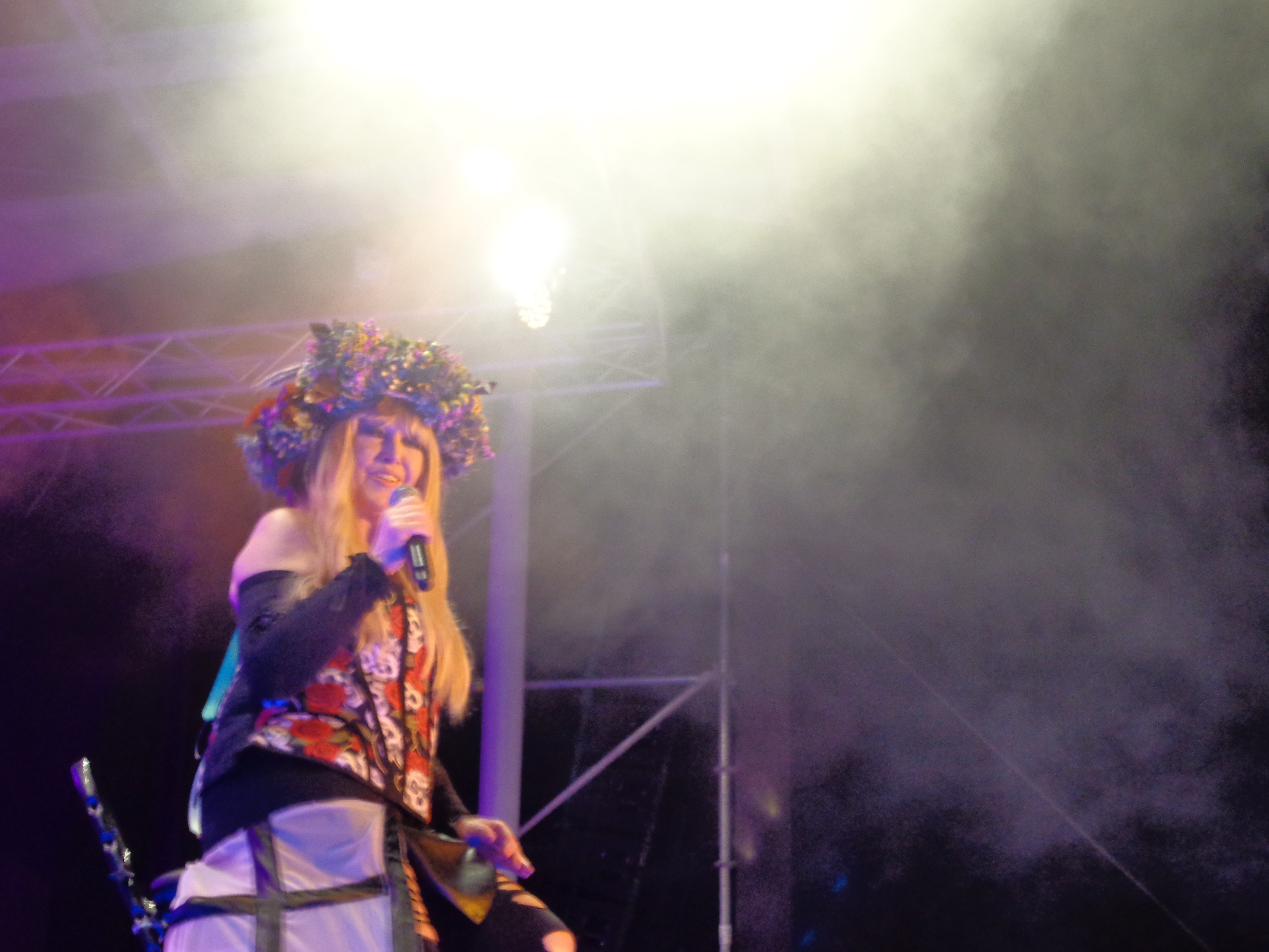 Maryla Rodowicz during the concert on the amphitheater on the occasion of XIX European Stars Festival in Międzyzdroje.